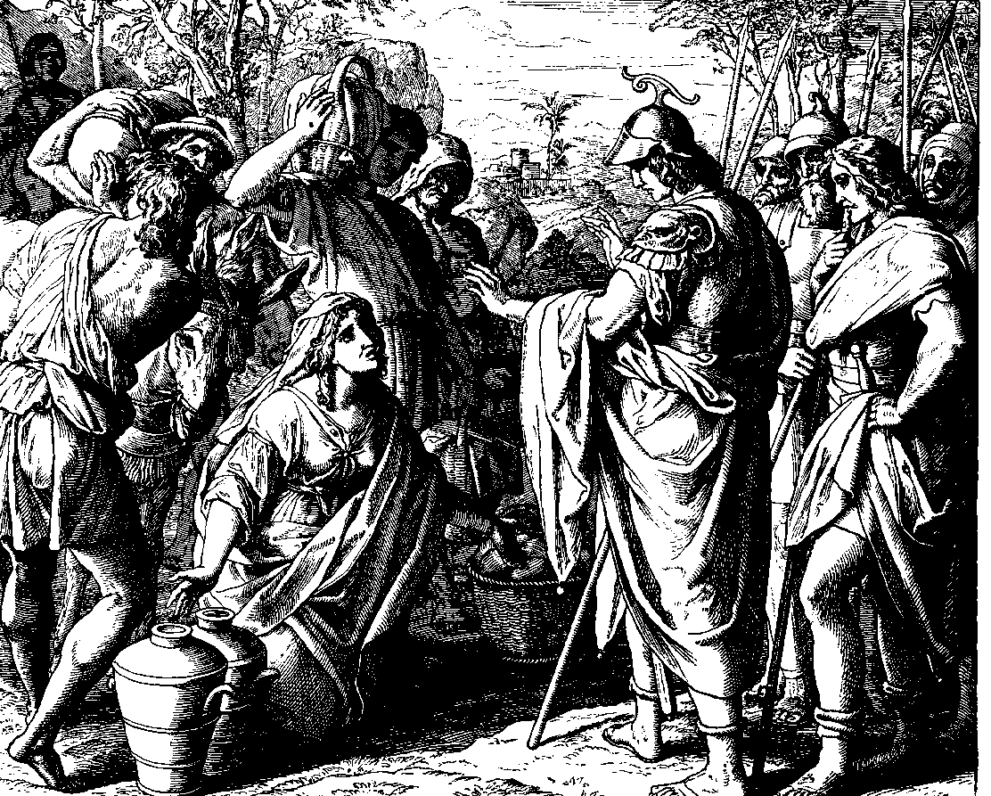 Woodcut for "Die Bibel in Bildern", 1860.